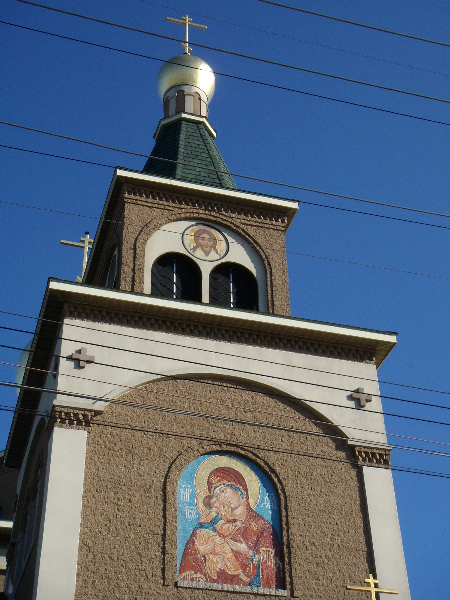 Photograph of Russian Orthodox Church in May 2007 in Erie, Pennsylvania.